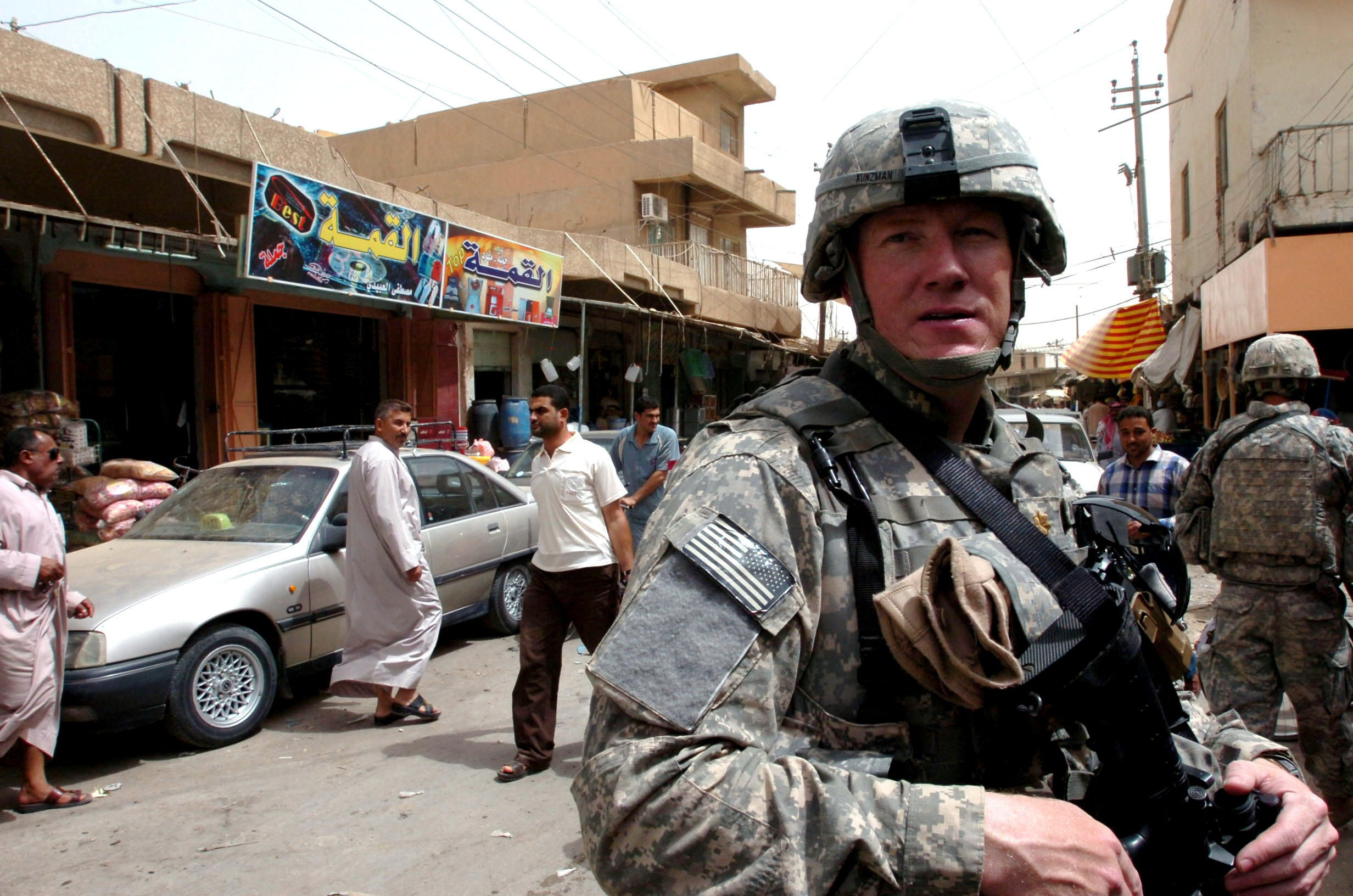 RAMADI, Iraq (June 7, 2008) Lt. Cmdr. Doug Kunzman visits the marketplace in Ramadi to meet with business owners to discuss electricity availability. U.S. Navy photo by Senior Chief Mass Communication Specialist Gary Boucher (Released)